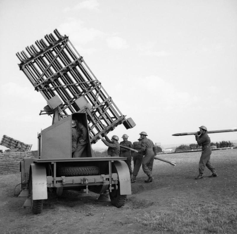 IWM caption : Royal Artillerymen at a 'Z' Battery load 4-inch anti-aircraft rockets into a mobile launcher. Comment : These are actually 3-inch rockets.